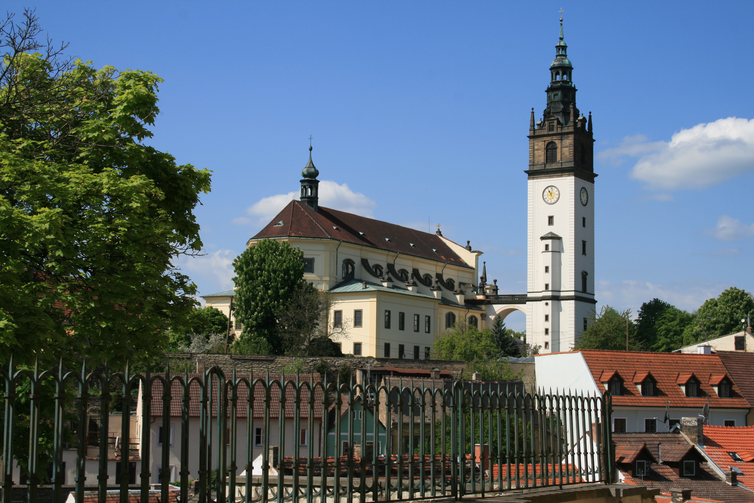 St. Stephen cathedral with belfry in Litoměřice, Czech Republic